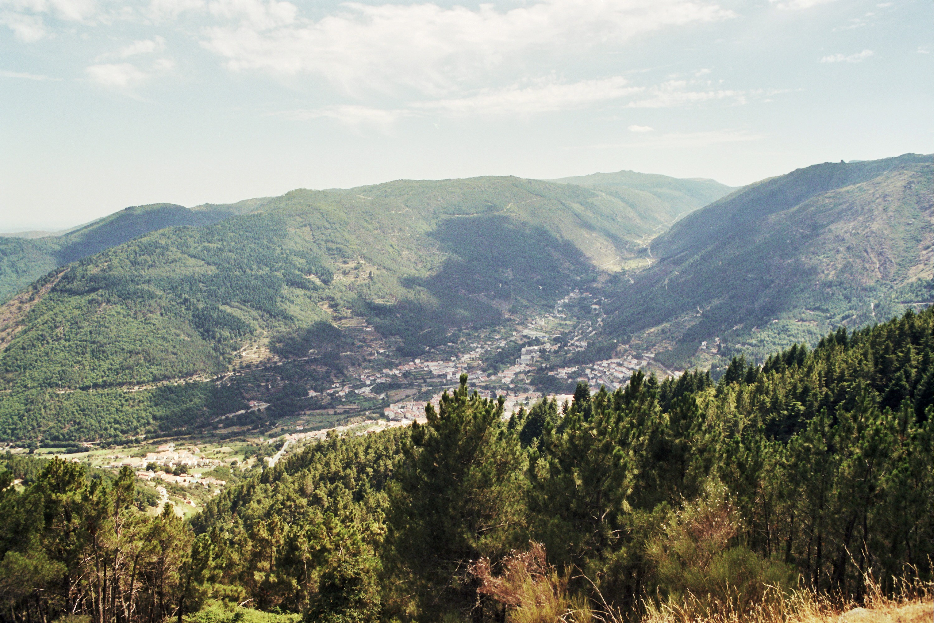 glacial valley of the Zêzere